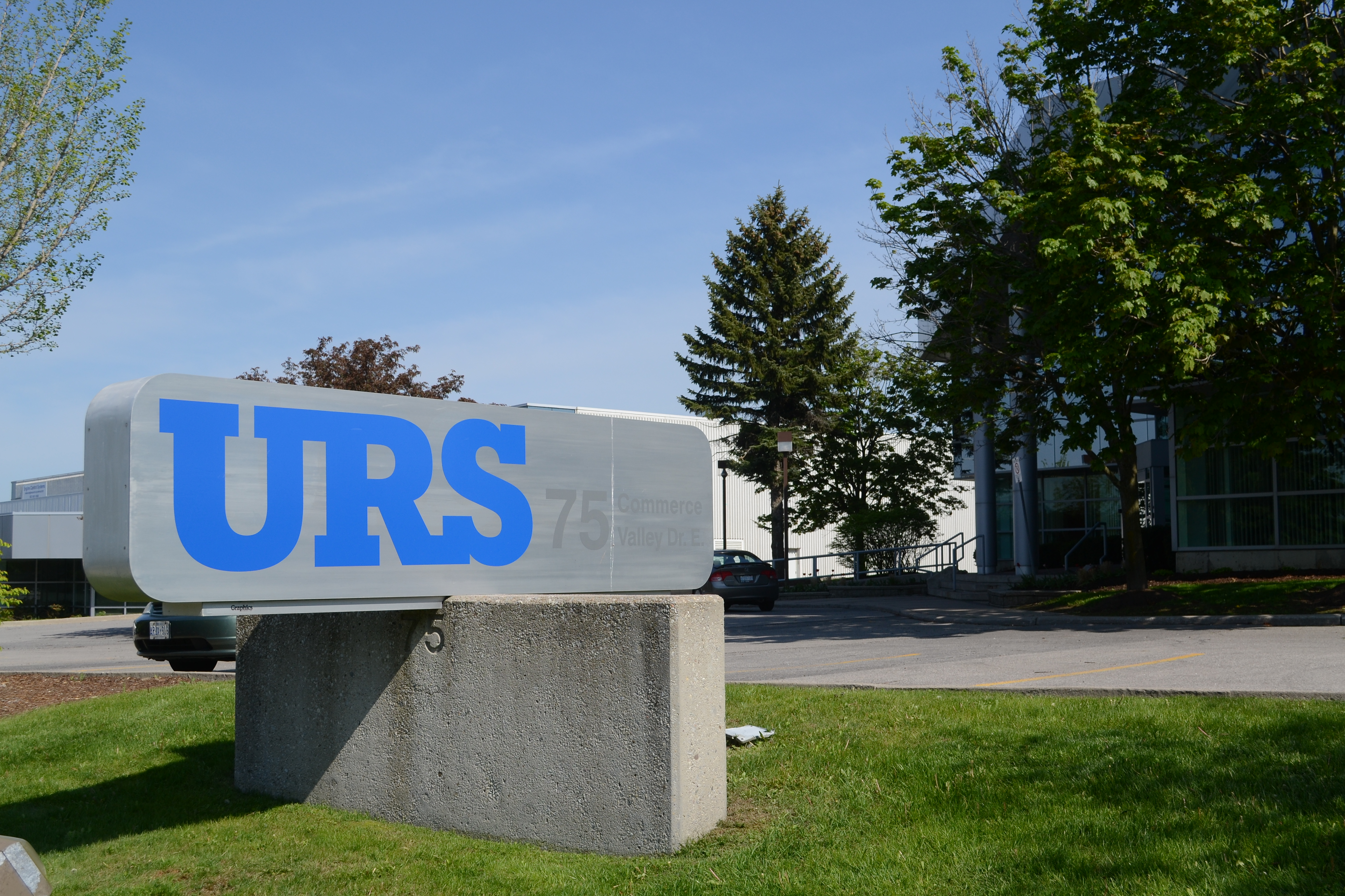 URS Canada